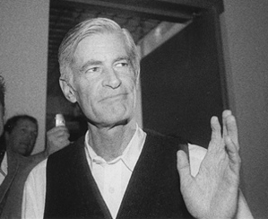 Now this is James Nachtwey, that conceited little, proudish smile. I caught it on camera, what timing! This is a cropped version of the source from flickr.